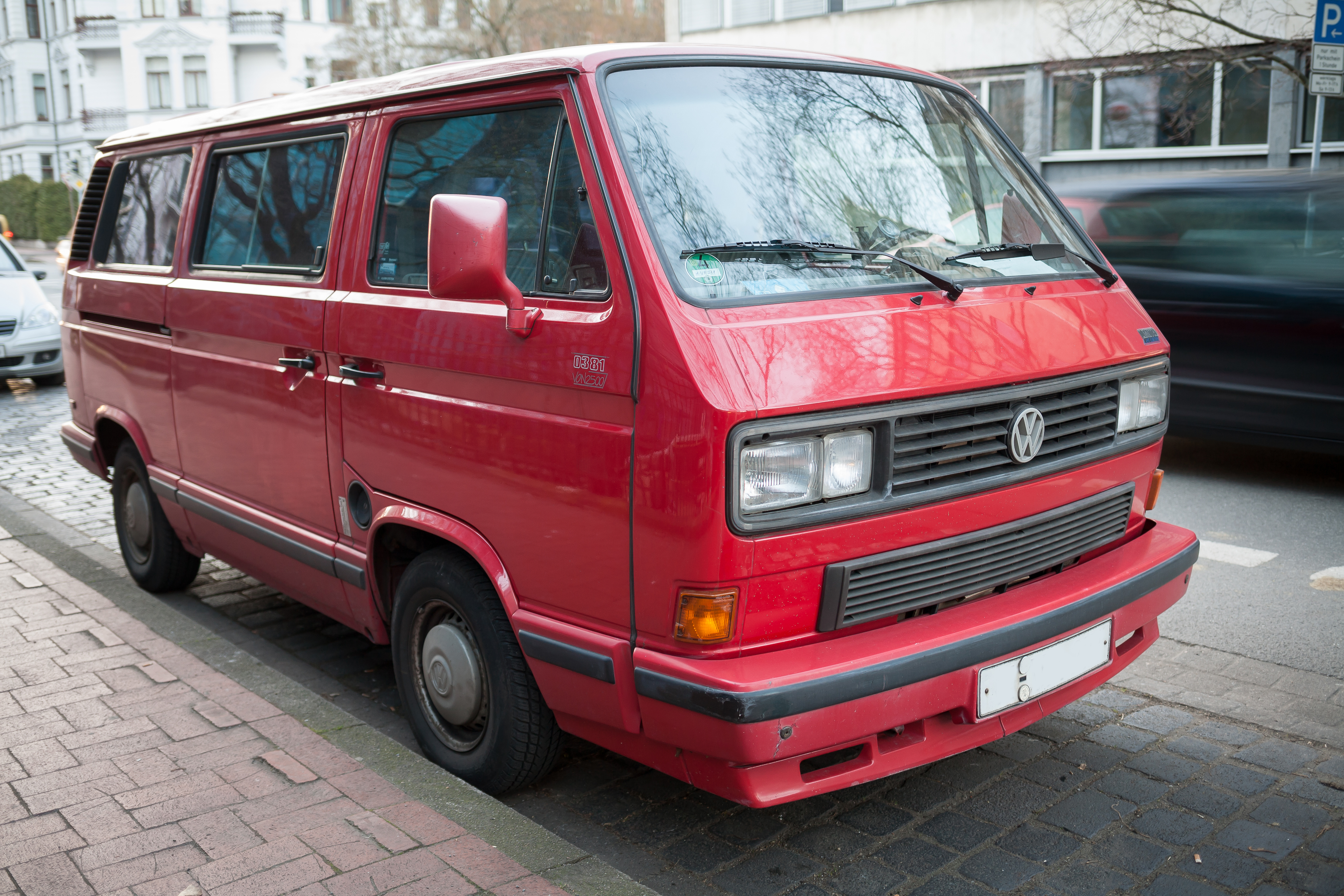 Volkswagen Type 2 (T3). Limited last edition (LLE), no. 381.